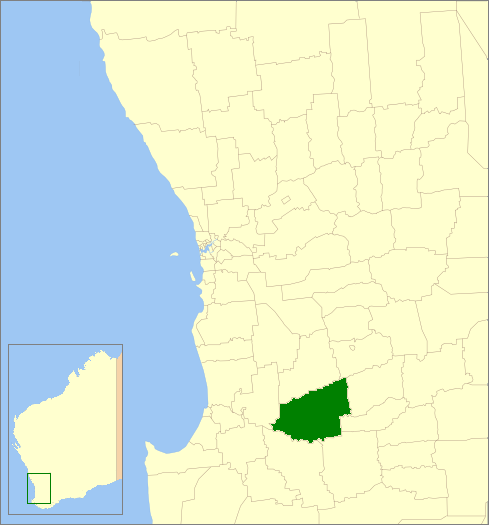 Description=Location of the Local Government Area in Western Australia